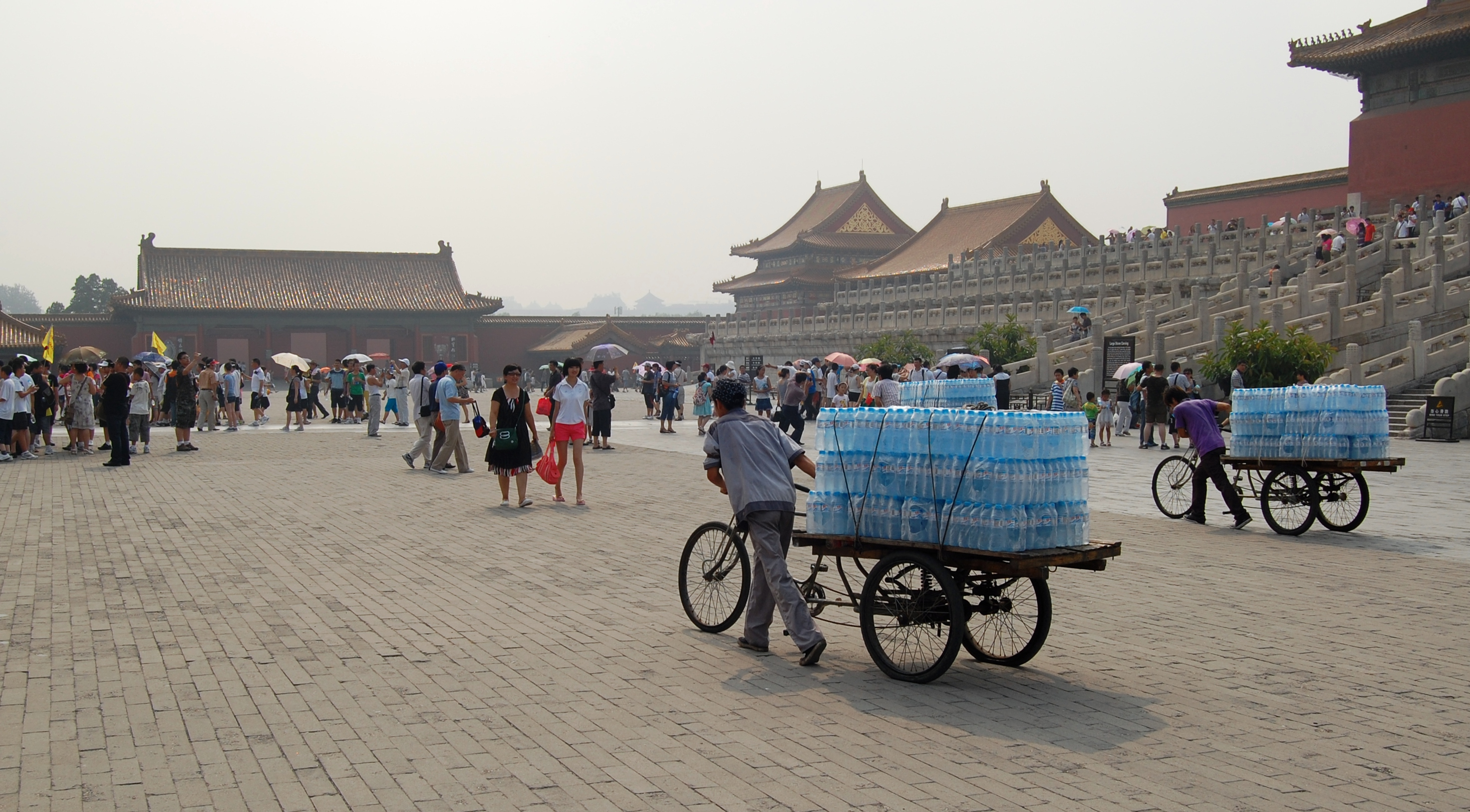 Tourism and work in Forbidden City, Beijing, China.